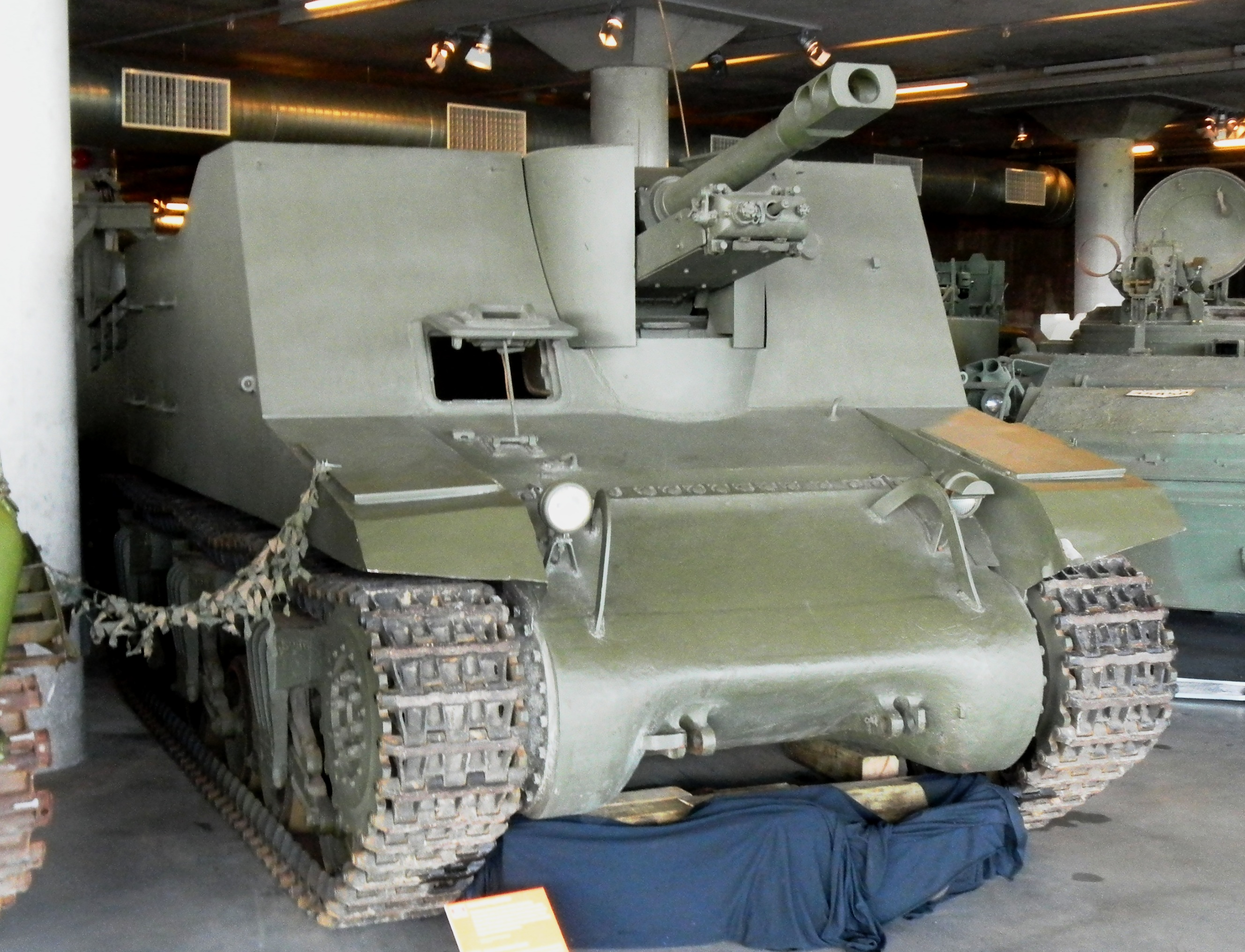 Sexton 25-pounder SP Gun, Canadian War Museum, Ottawa. The 25-pounder Gun SP, tracked, Sexton was a Second World War self-propelled artillery vehicle based on an American tank hull design, built by Canada for the British Army, and associated Commonwealth forces and other Allies. It was developed to give the British Army a mobile artillery gun using their Ordnance QF 25-pounder Gun gun-Howitzer.